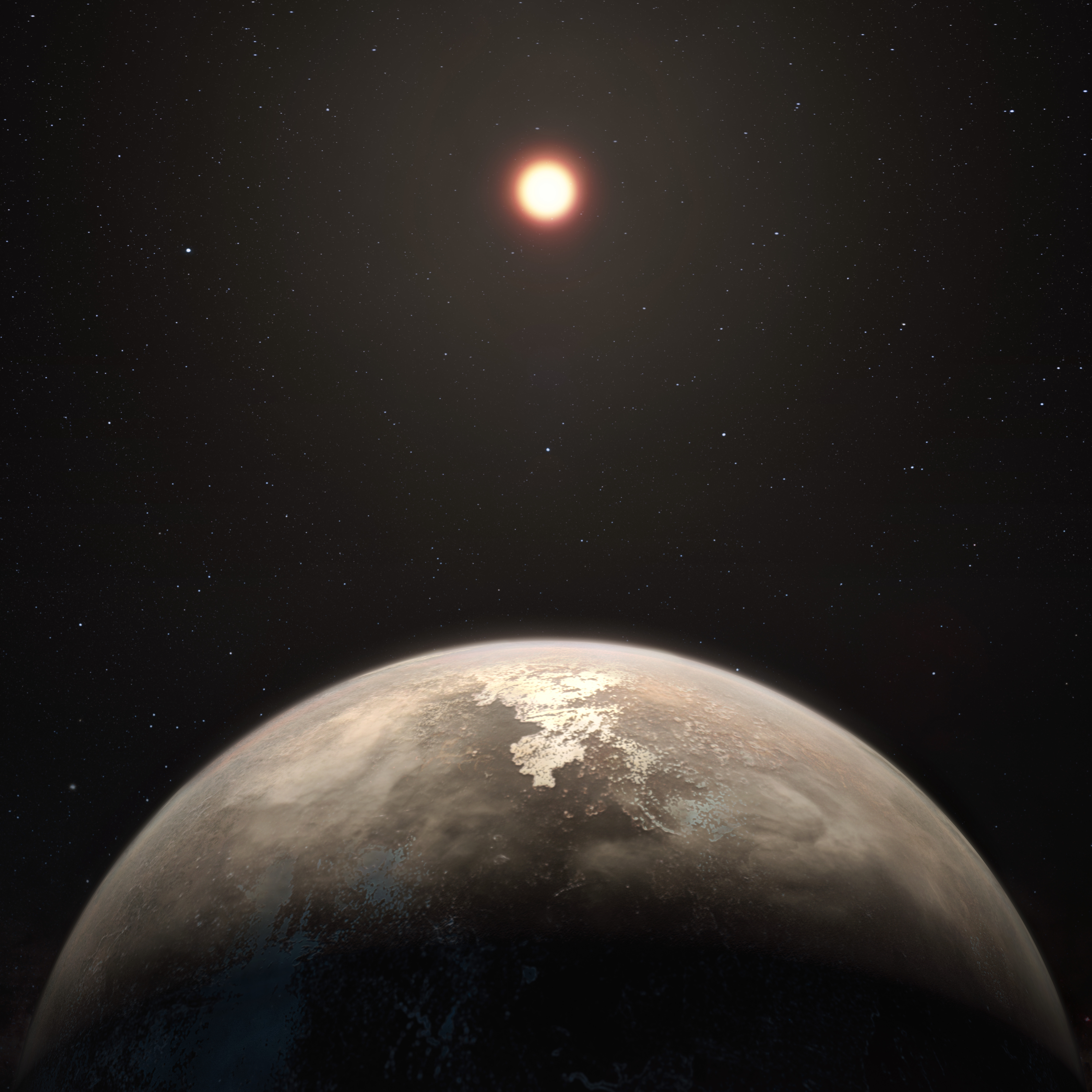 This artist’s impression shows the temperate planet Ross 128 b, with its red dwarf parent star in the background. This planet, which lies only 11 light-years from Earth, was found by a team using ESO’s unique planet-hunting HARPS instrument. The new world is now the second-closest temperate planet to be detected after Proxima b. It is also the closest planet to be discovered orbiting an inactive red dwarf star, which may increase the likelihood that this planet could potentially sustain life. Ross 128 b will be a prime target for ESO’s Extremely Large Telescope, which will be able to search for biomarkers in the planet's atmosphere.